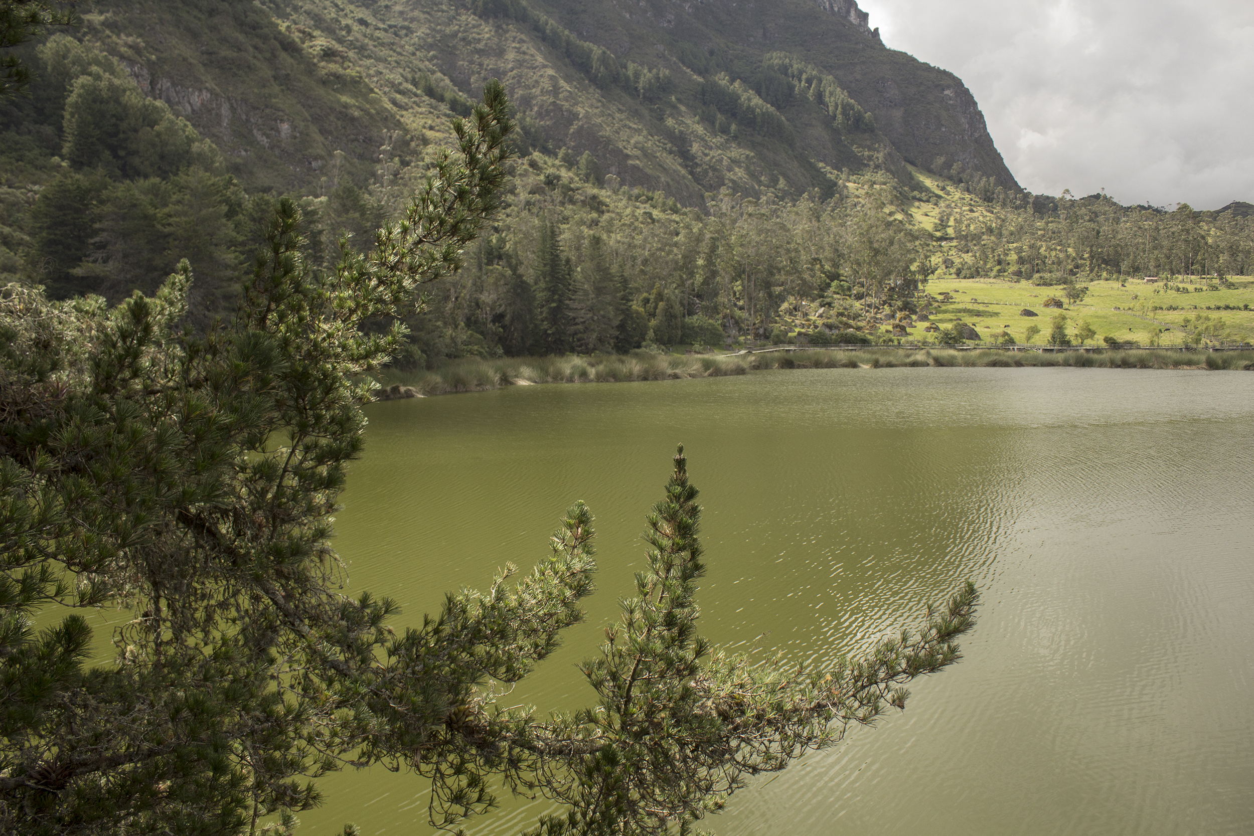 Vista de la laguna desde el bosque de pinos